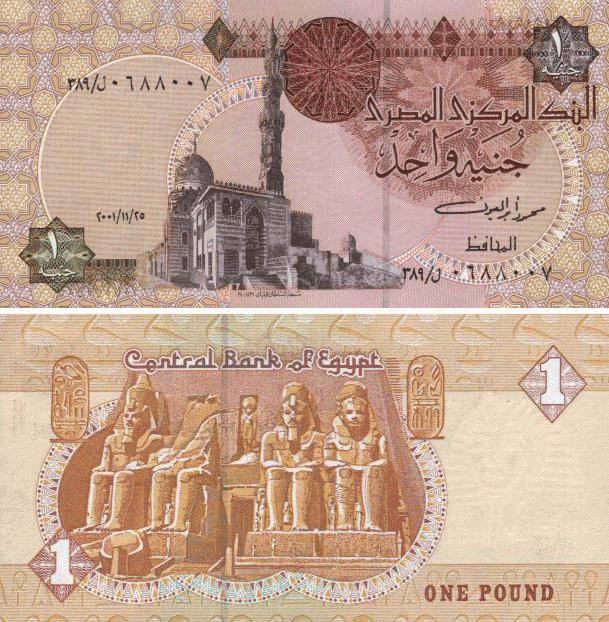 EgyptPNew-1Pound-25-11-2001